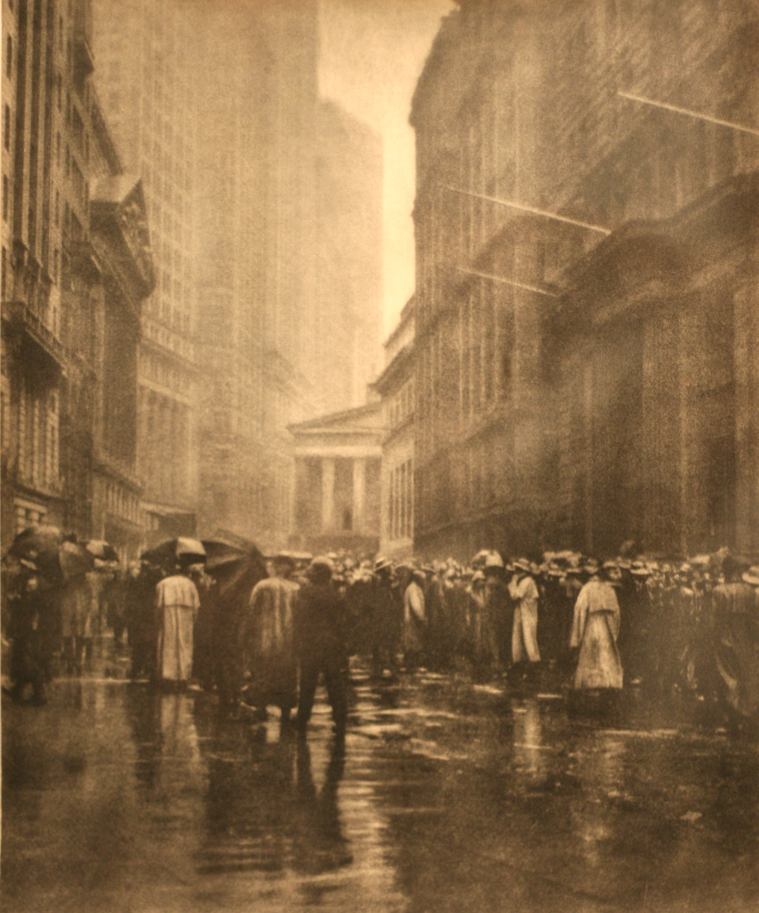 Joseph Petrocelli (American, died 1928). The Curb Market - New York, 1920. Bromoil print. Brooklyn Museum, Gift of Mrs. Joseph Petrocelli, 45.31.38.